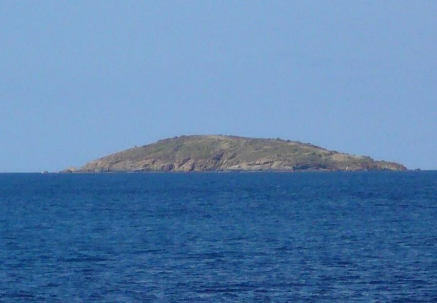 Photograph of Flanagan Island, Virgin Islands